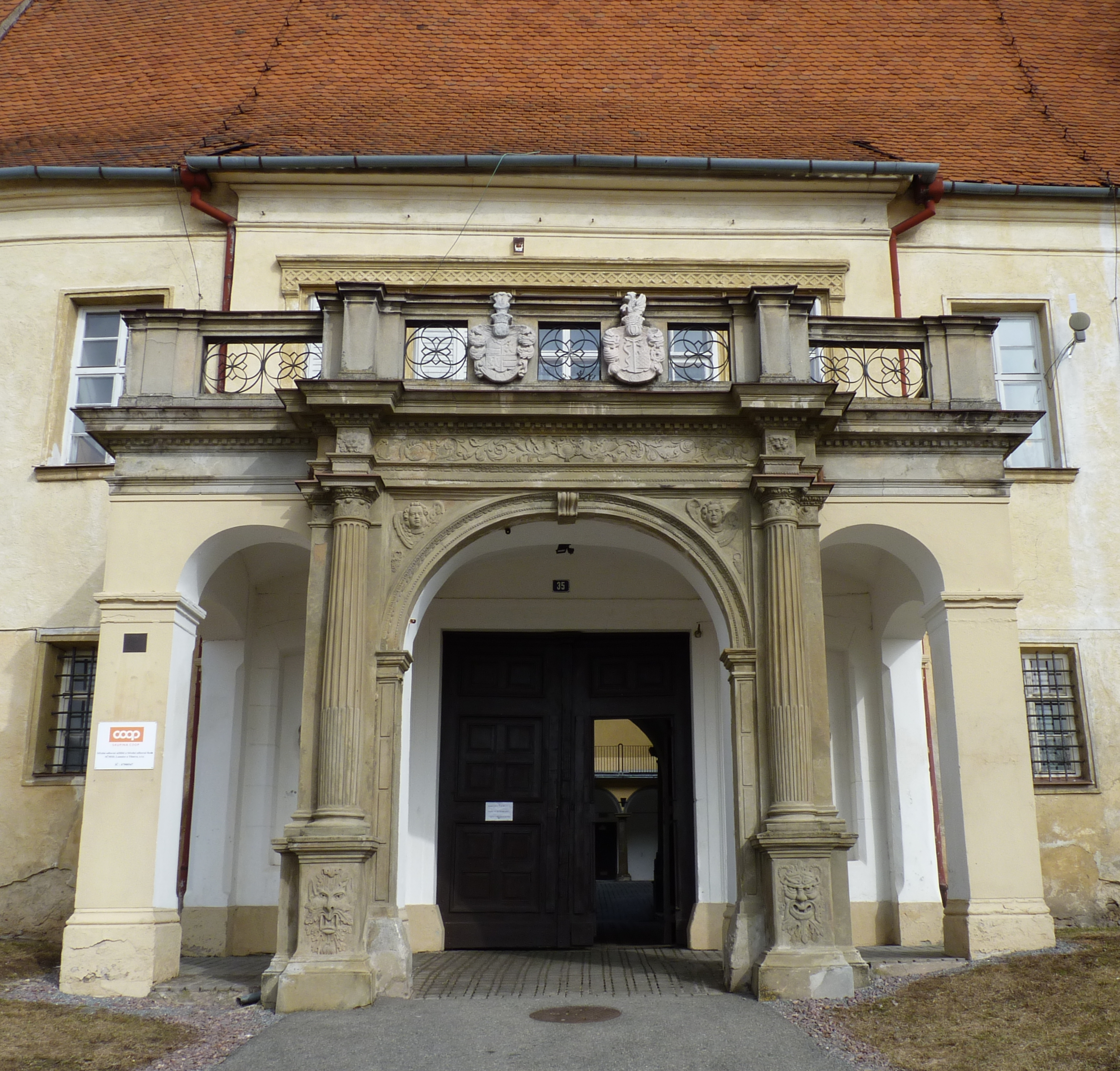 Castle in Lomnice, Brno-Country District, South Moravian Region, Czech Republic